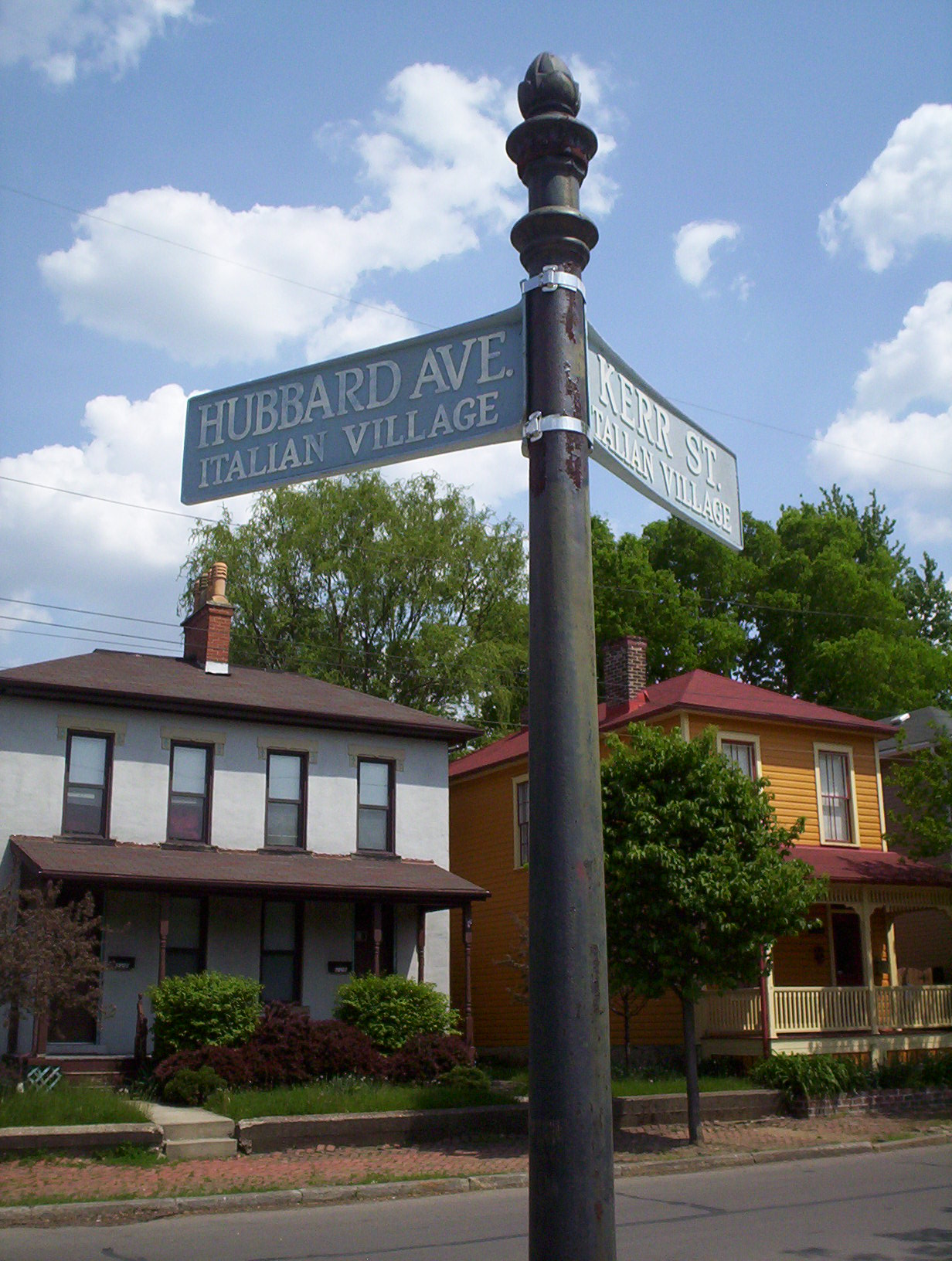 Intersection at Italian Village Park.